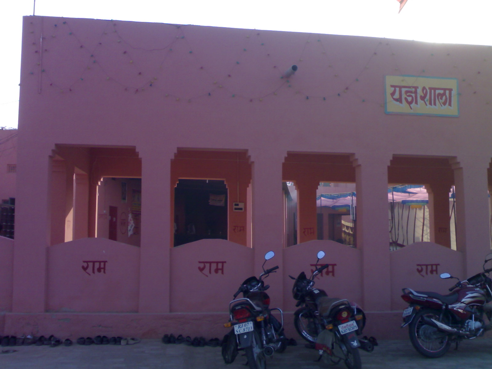 This photo show you Yagyashala at Rojhri temple.This photo is created by me(user:Shemaroo aka Sivender Singh, ) Shemaroo (talk) 15:35, 4 March 2011 (UTC)